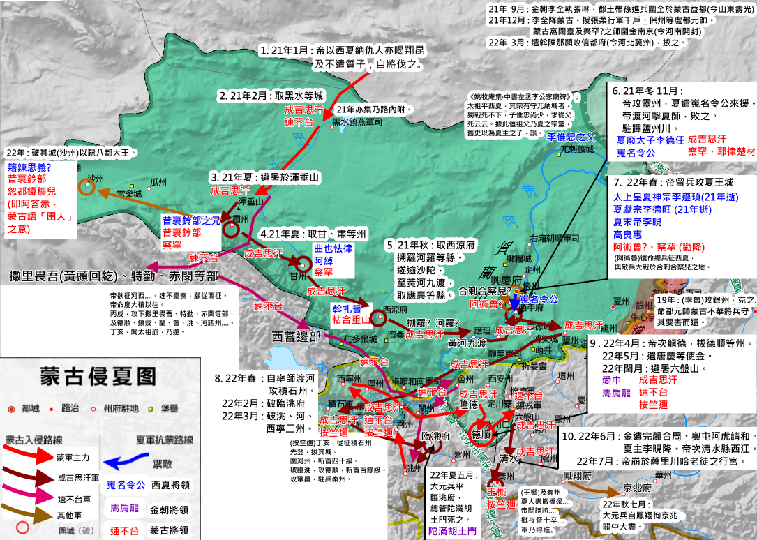 Mongol conquest of Western Xia